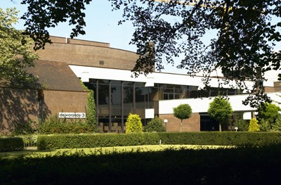 Original building of De Warande in Turnhout.